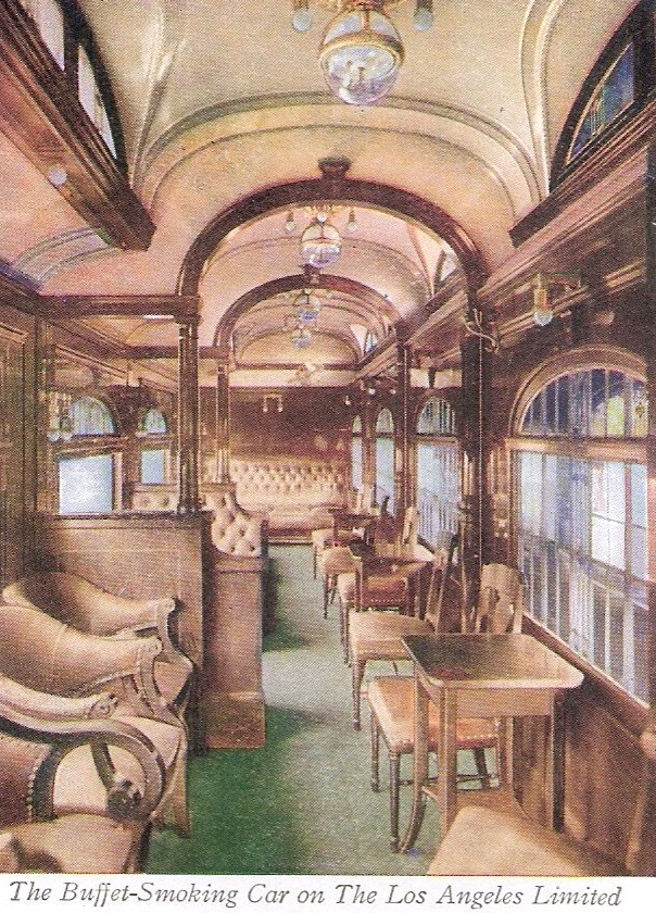 Postcard photo of the smoking/buffet lounge on the Union Pacific train Los Angeles Limited.